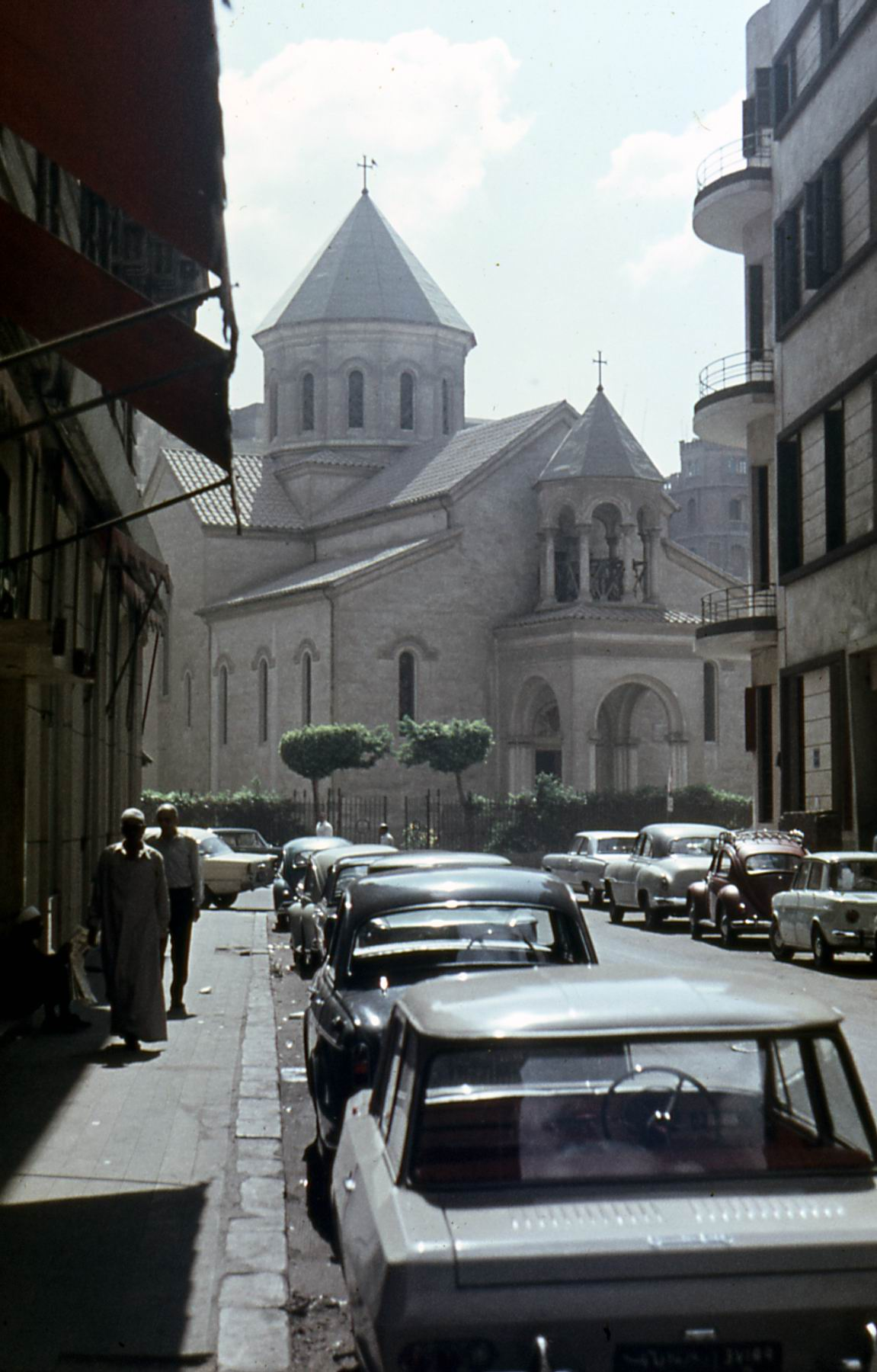 Armenian church in Cairo